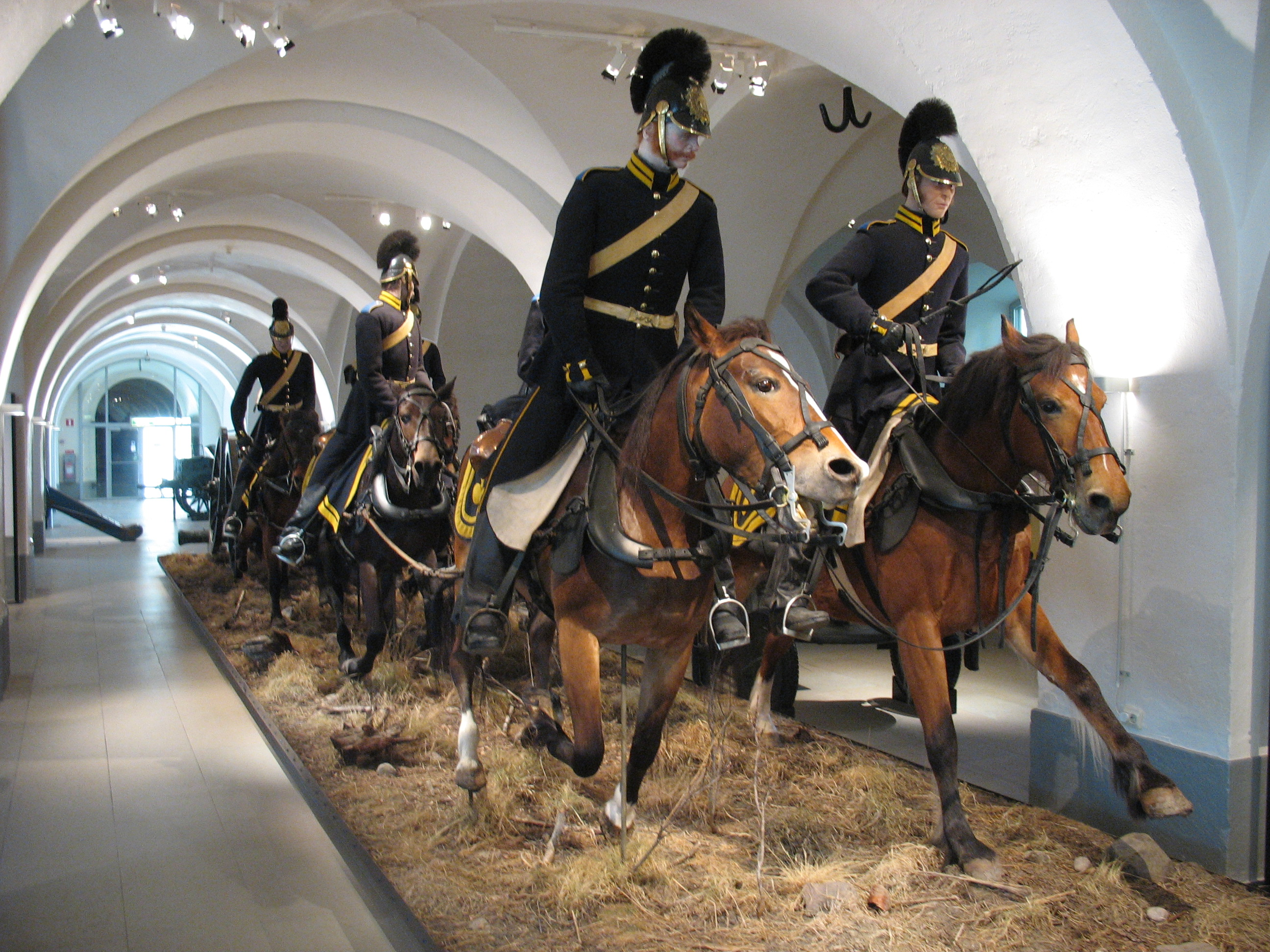 A model of Swedish horse-drawn artillery, a type of military unit used in the mid-19th century, on display at the Army Museum in Stockholm. English translation of the accompanying caption in